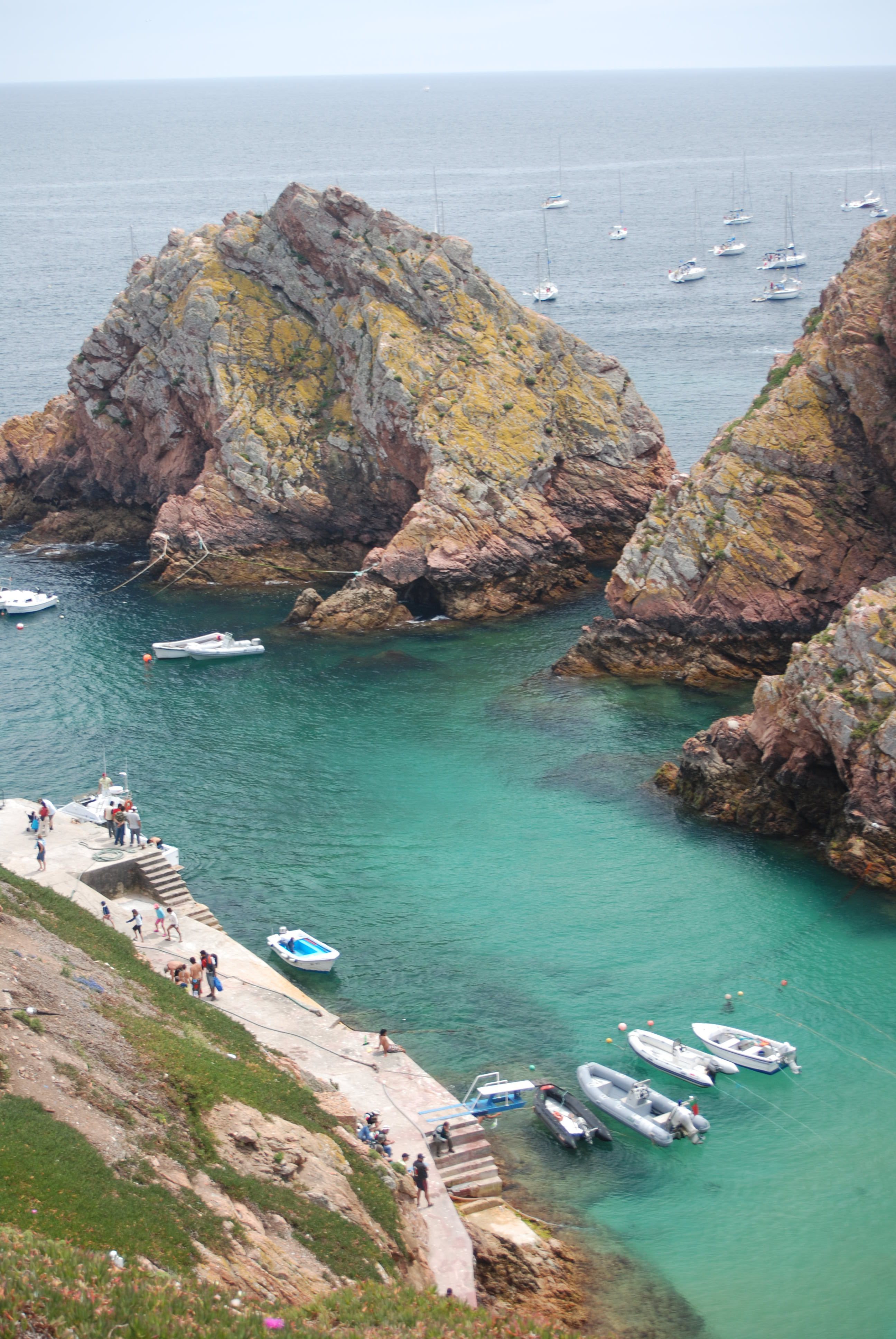 bay of Berlenga